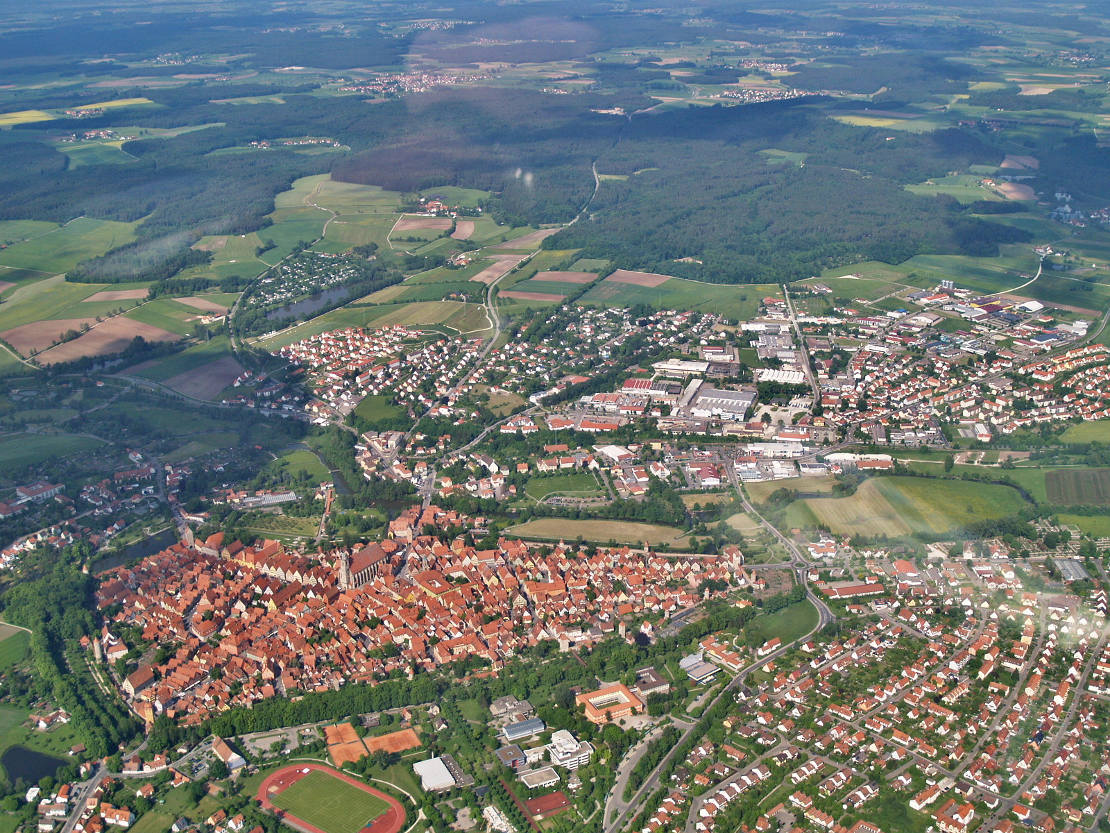 Aerial view of Dinkelsbühl